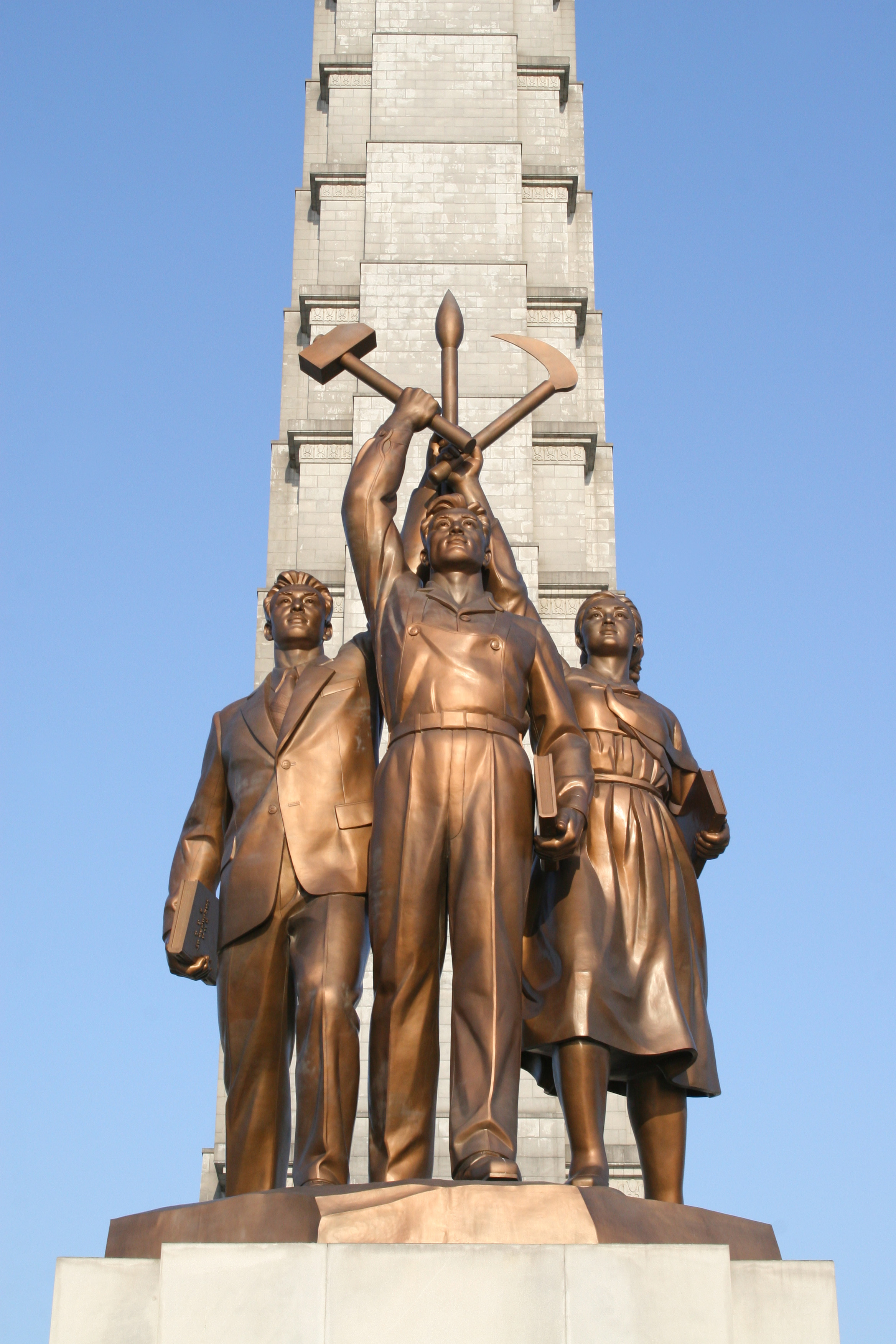 A Socialist statue on the Juche Tower, Pyongyang.